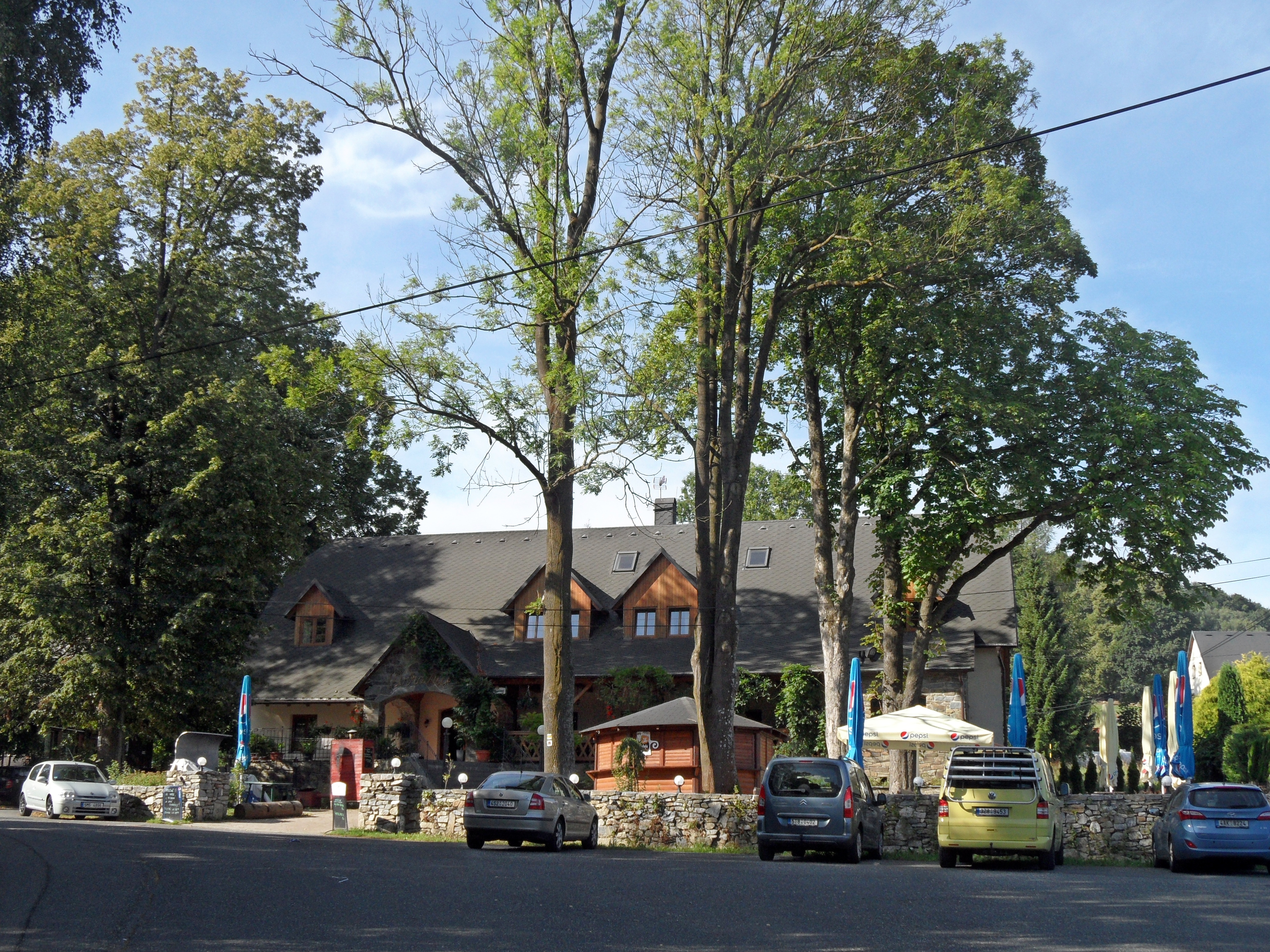 Bobrovník A. Restaurant Koliba. Jeseník District, the Czech Republic.